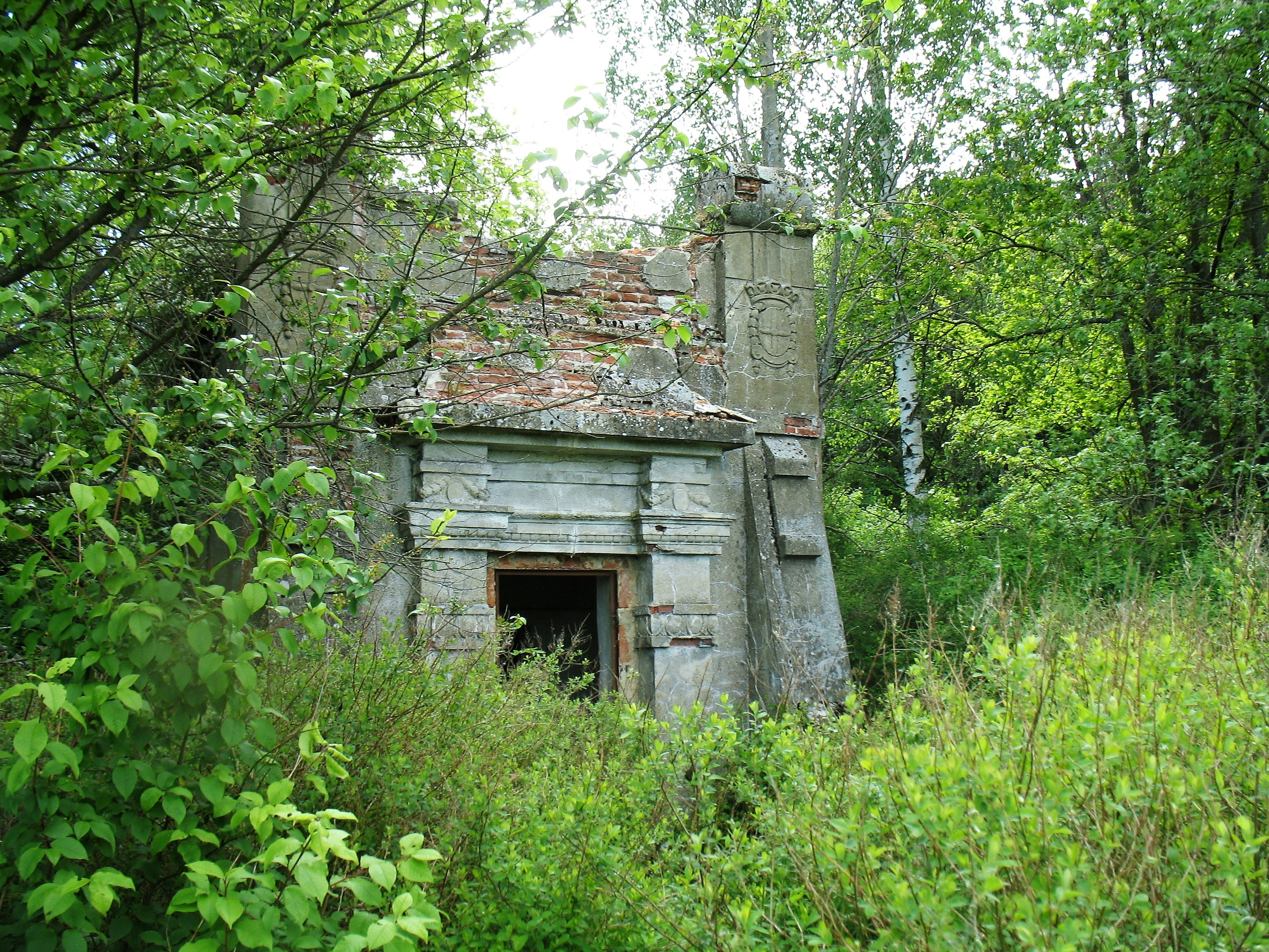 Water reservoir (cultural monument) in Bohatice, Česká Lípa District